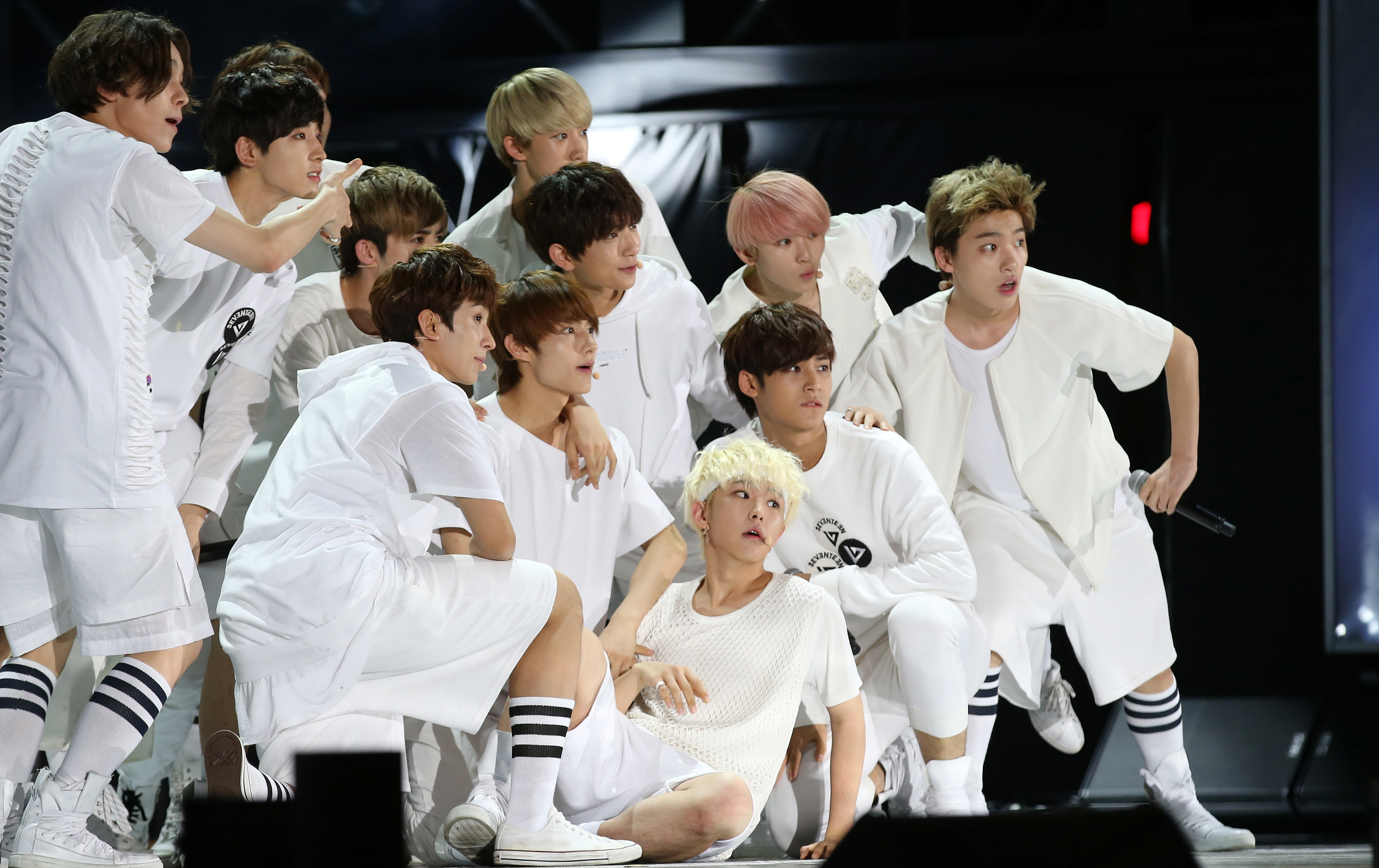 2015 Summer K-POP Festival August 4, 2015 Seoul Plaza Ministry of Culture, Sports and Tourism Korean Culture and Information Service ( Official Photographer : Jeon Han